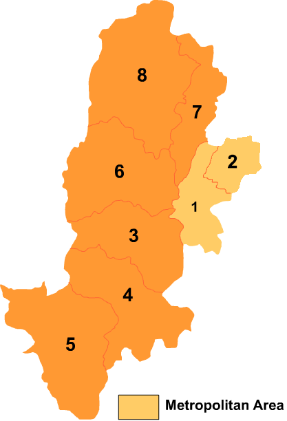 Map of Ya'an in Sichuan province.